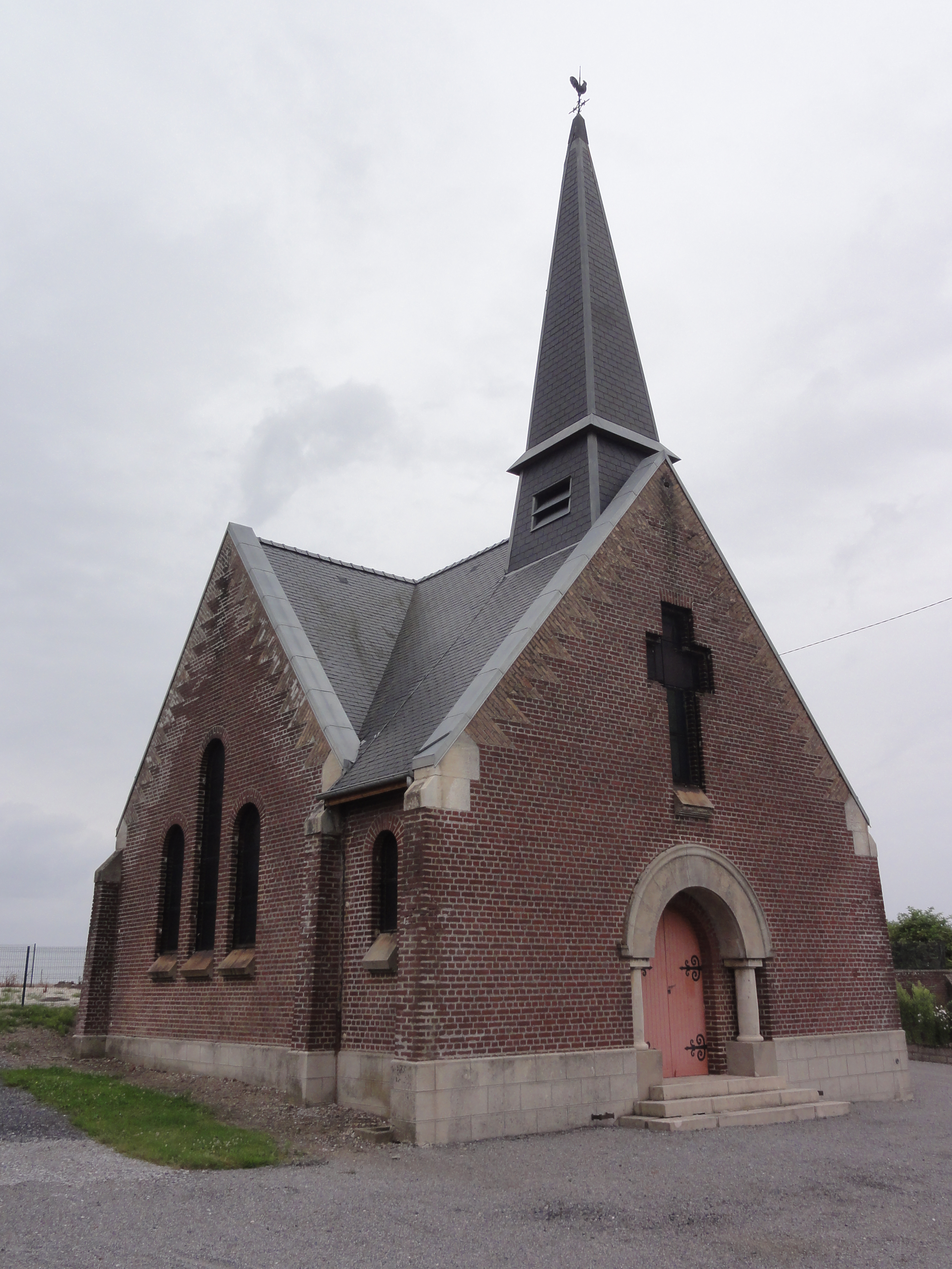 Cerizy (Aisne) église Saint-Brice